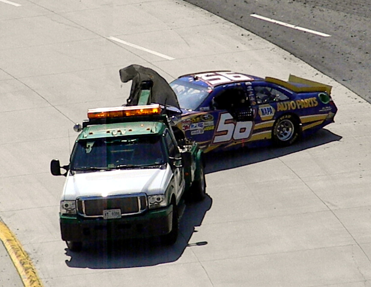 Martin Truex, Jr.'s race car following a accident with Kasey Kahne at Martinsville Speedway in 2011.